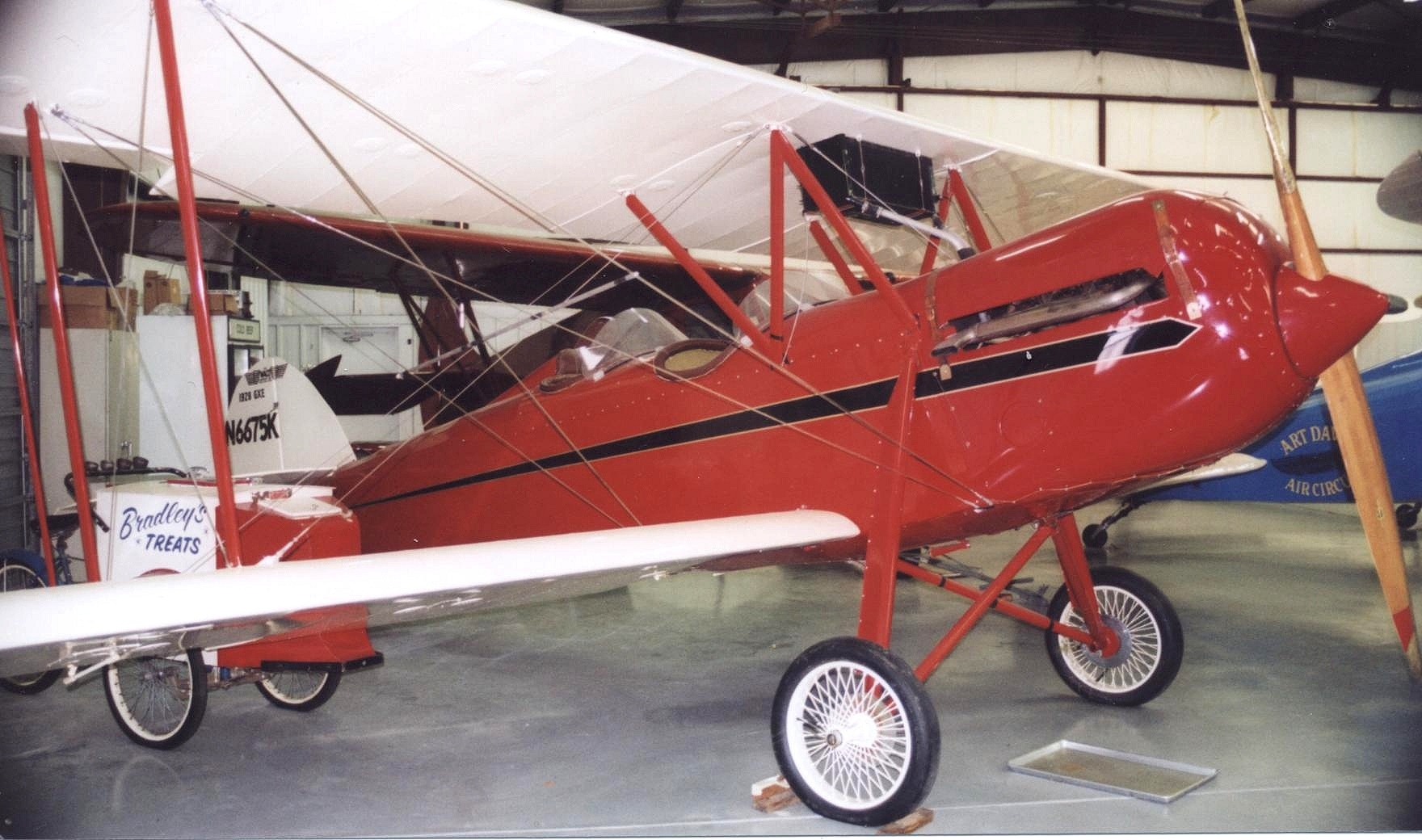 Waco GXE biplane of 1928 at the Historic Aircraft Restoration Museum near St Louis